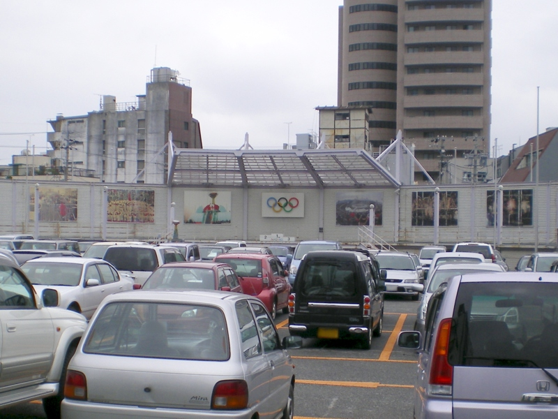 Central Square(Nagano-shi, Nagano, Japan) This facility was the victory ceremony site, in the 1998 Nagano olympic games.